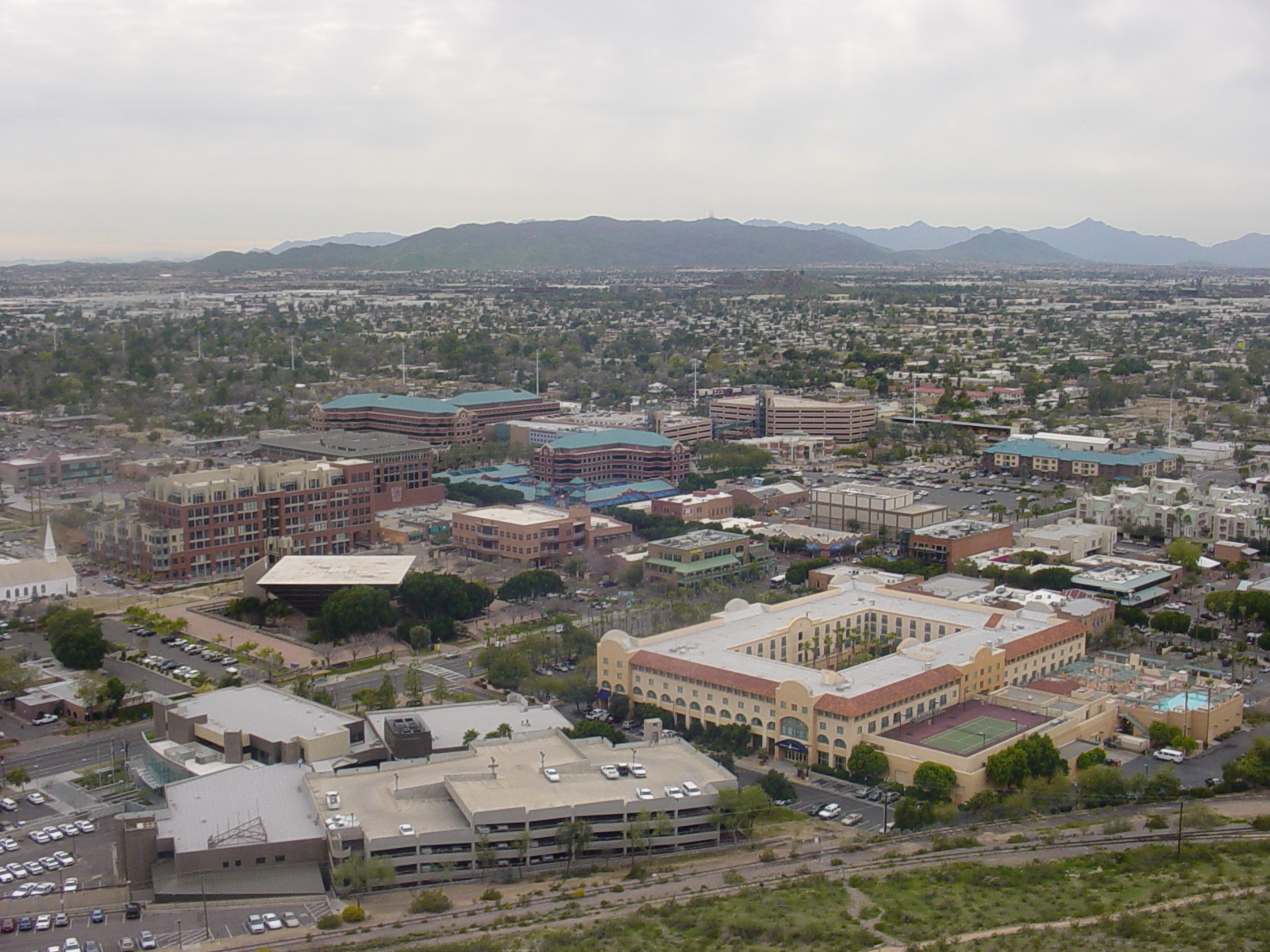 Downtown Tempe, AZ from "A" Mountain. Please note that this picture is prior to the construction of the new condominium project (Centerpoint) that is underway off the Mill Avenue District.